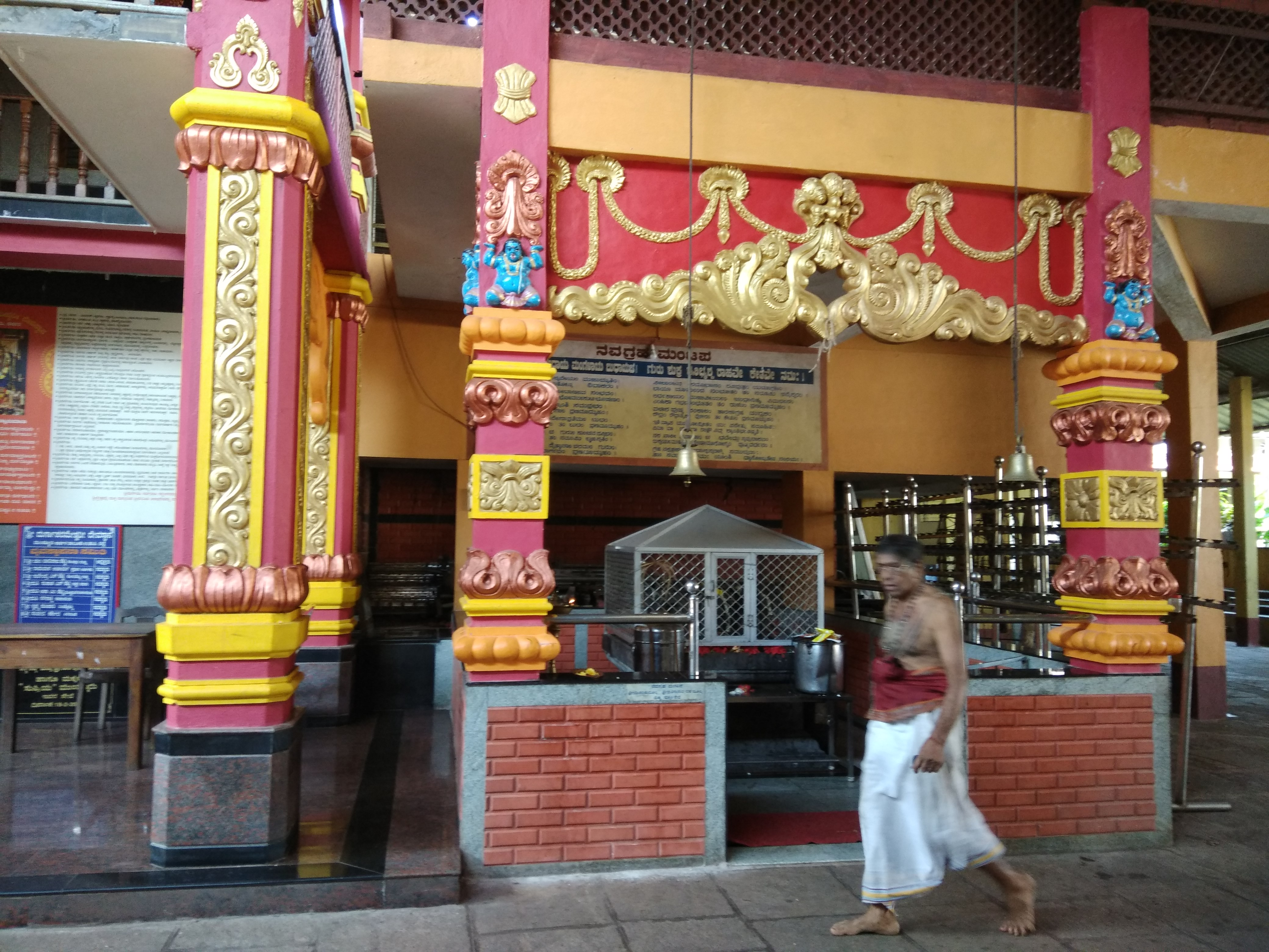 Mundkur. Shri Durga Parameshwari Temple, Mundkur, Udupi district, Karnataka, India ಕನ್ನಡ: ಮುಂಡ್ಕೂರು, ಶ್ರೀ ದುರ್ಗಾ ಪರಮೇಶ್ವರಿ ದೇವಸ್ಥಾನ, ಮುಂಡ್ಕೂರು, ಉಡುಪಿ ಜಿಲ್ಲೆ, ಕರ್ನಾಟಕ, ಭಾರತ.